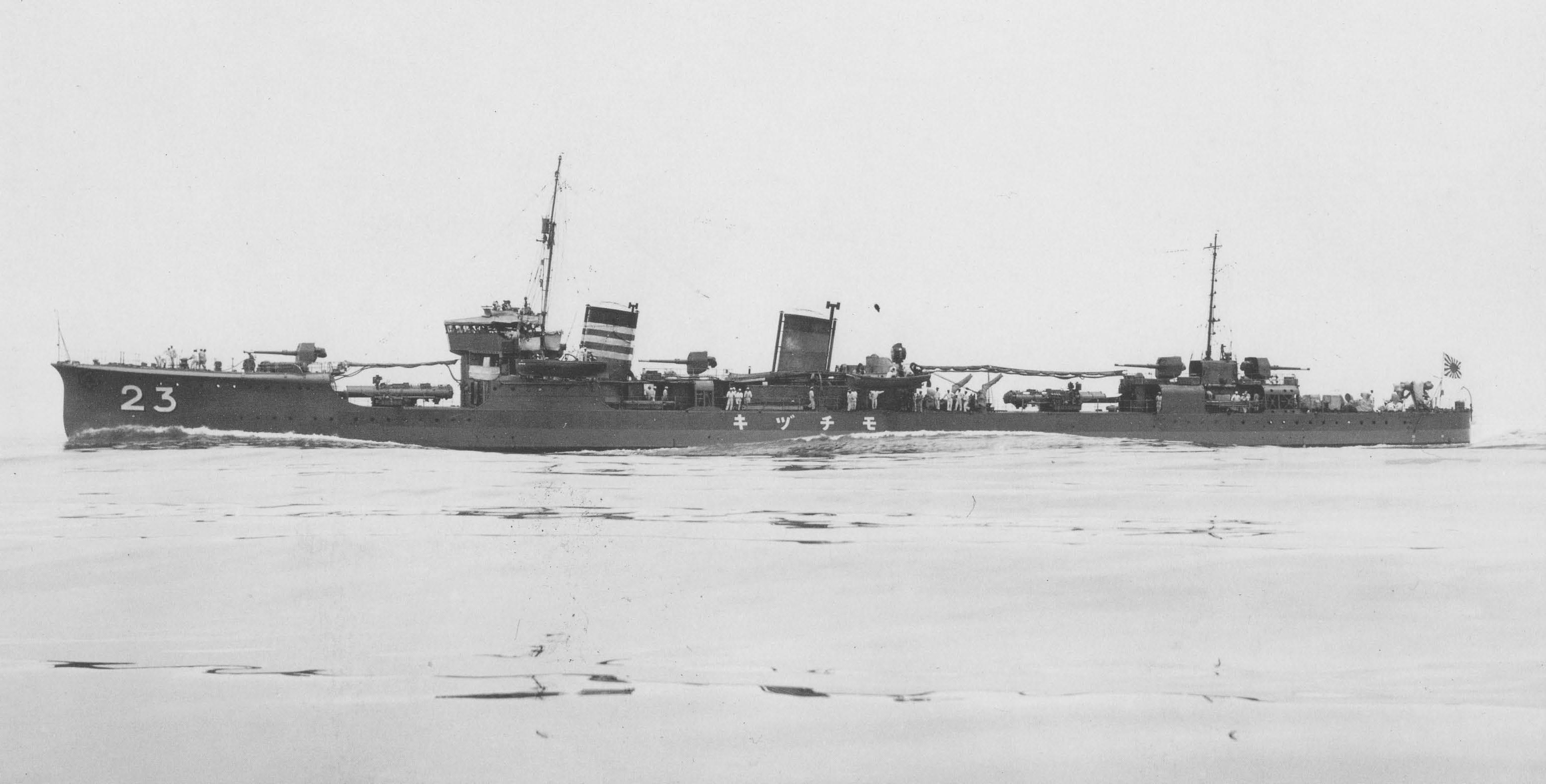 Imperial Japanese Navy destroyer Mochizuki.